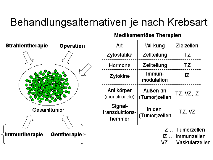 Pictures summarizes the different treatment options in cancer